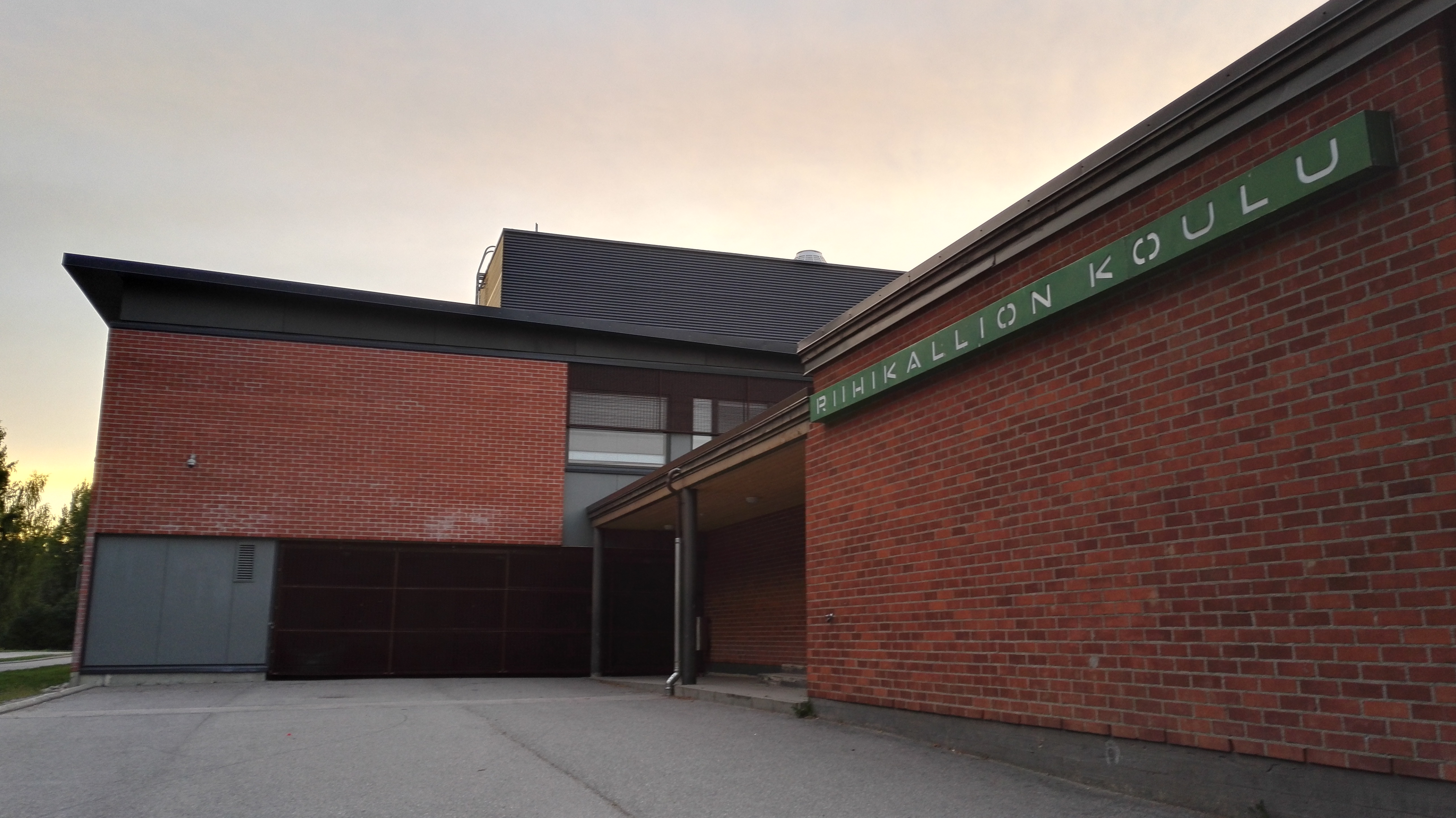 School in Tuusula, Finland.